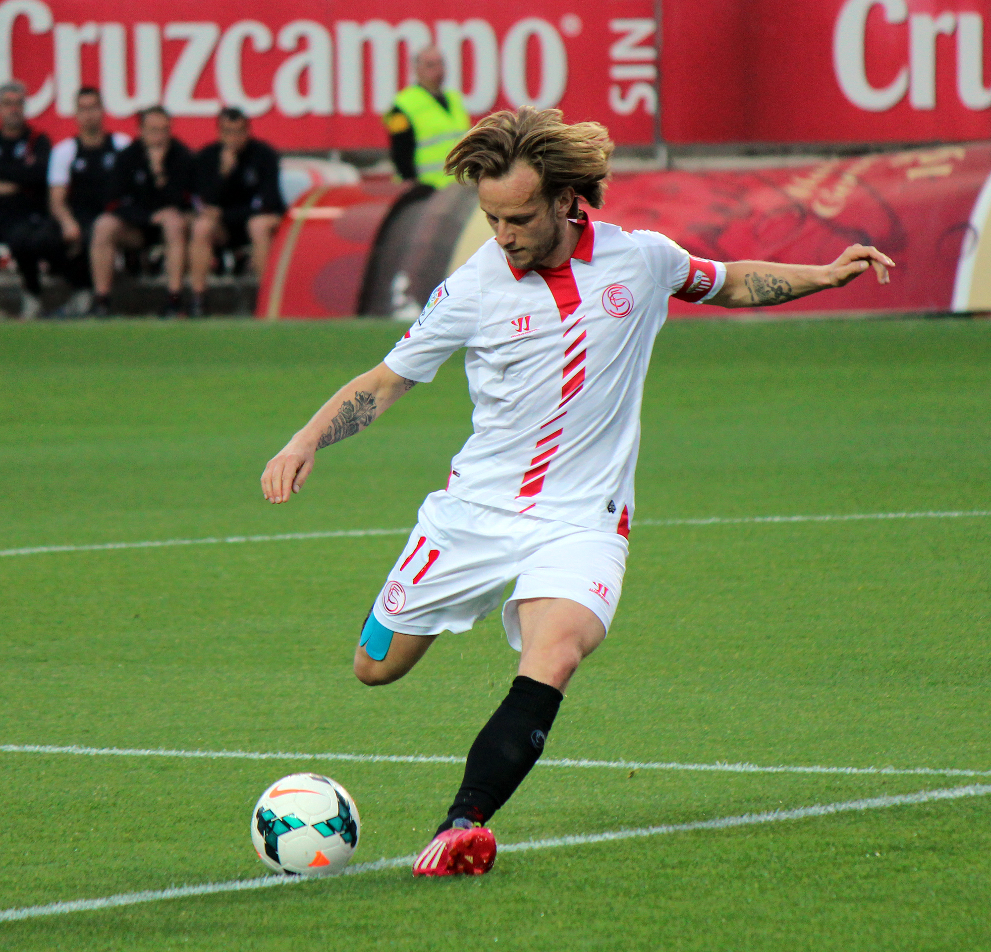 Swiss-born Croatian footballer who plays for Sevilla FC in La Liga